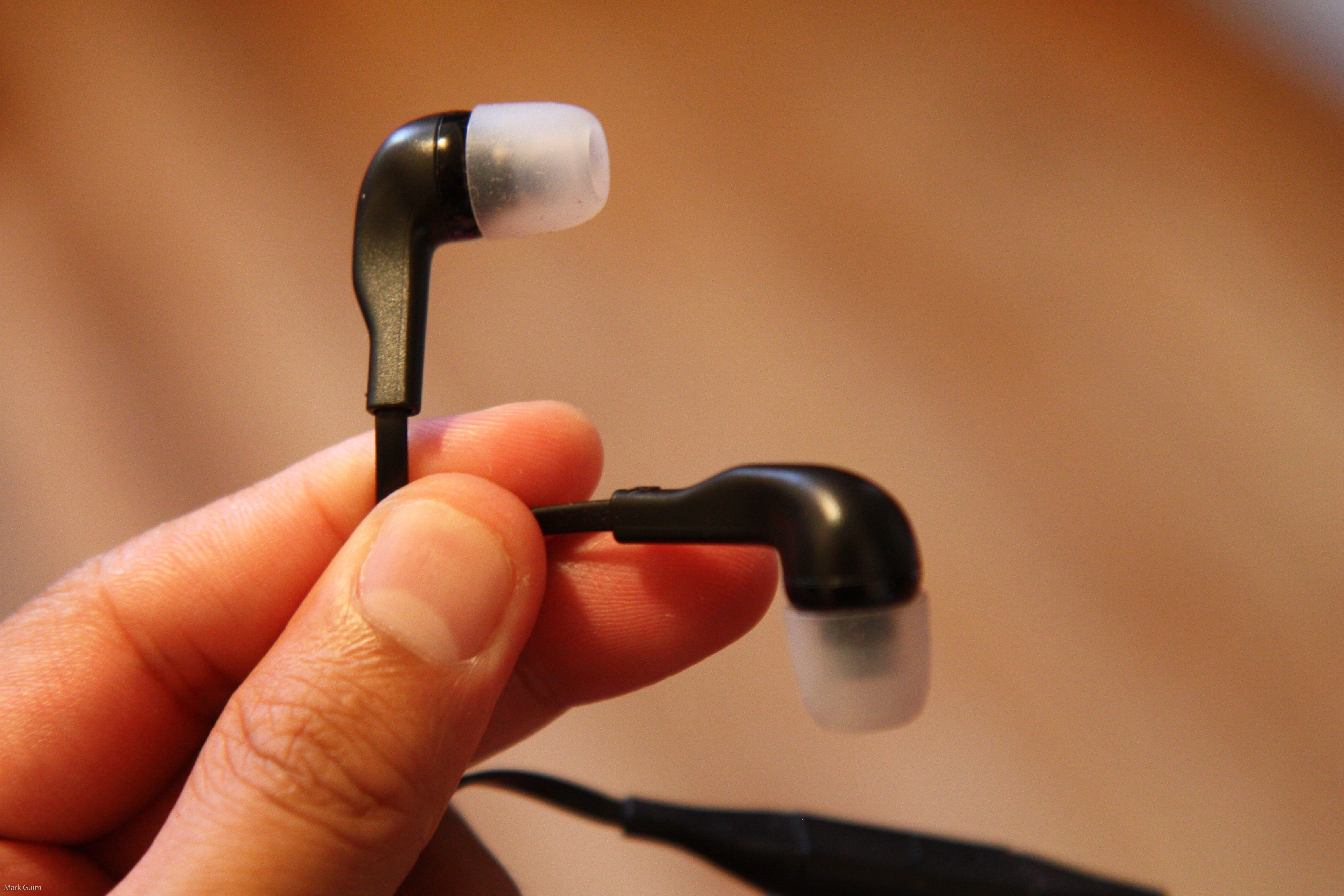 Headset Nokia WH-205